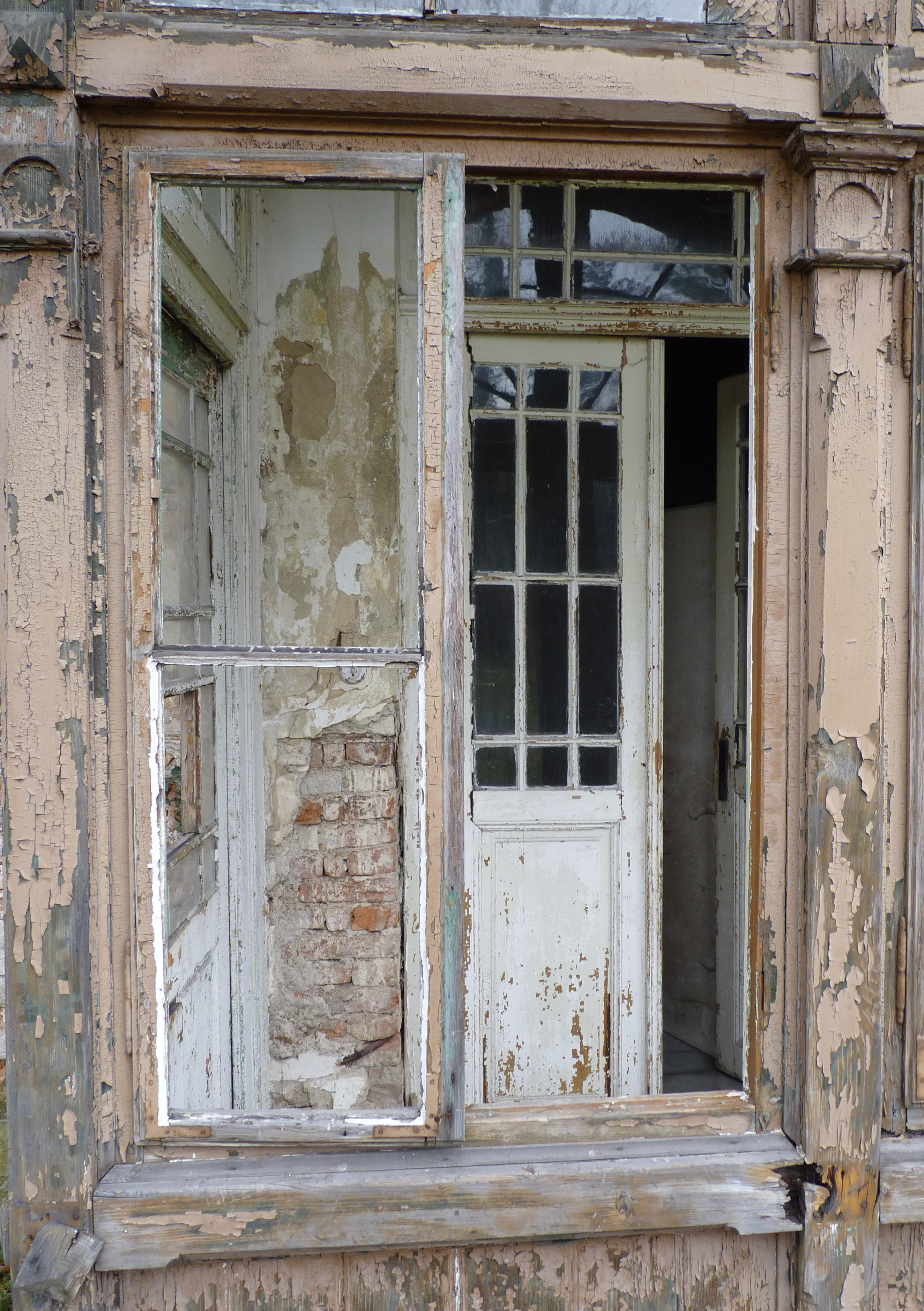 Castle, Hnojník, Frydek-Mistek District, Moravian-Silesian Region, Czech Republic